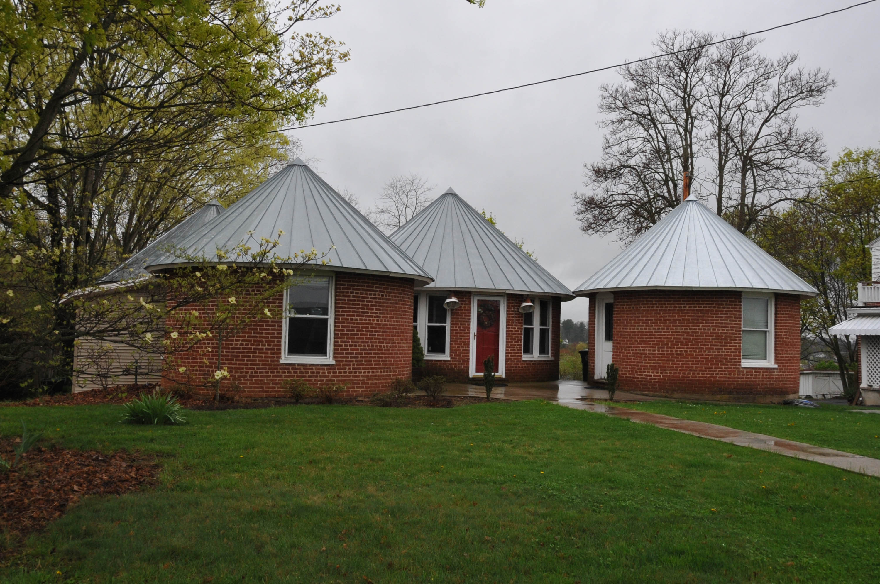 A NOTABLE DWELLING IS THE 1919 RICE HOUSE, KNOWN AS "THE HUTS." IT CONSISTS OF ONE LARGE (20 FEET IN DIAMETER) CIRCULAR CONICALLY-ROOFED SECTION AND THREE SMALLER (15 FEET IN DIAMETER) CIRCULAR UNITS CLUSTERED TO THE NORTH, EAST, AND SOUTHEAST